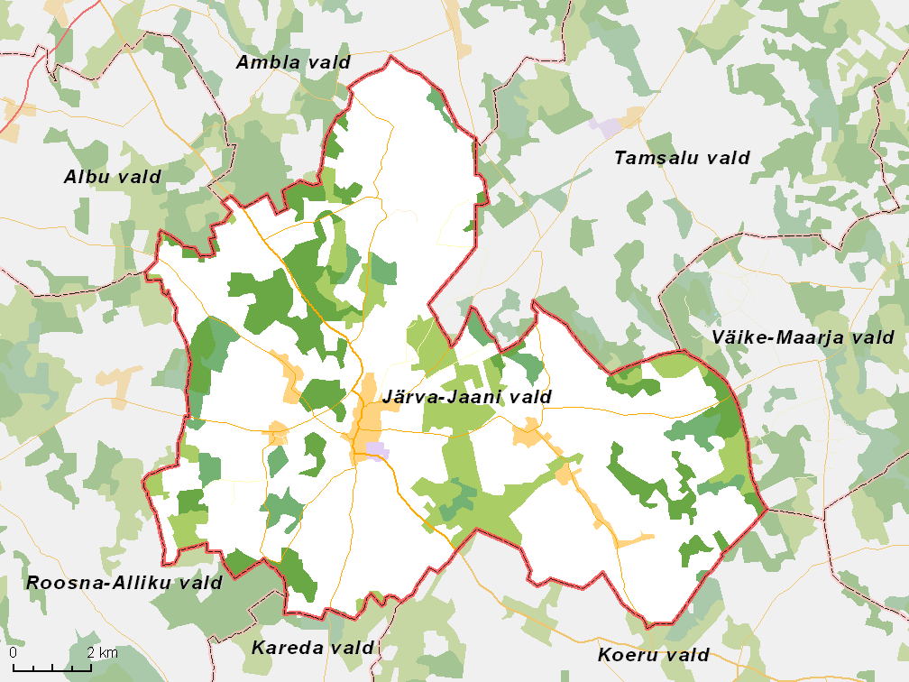 Map of municipality in Estonia